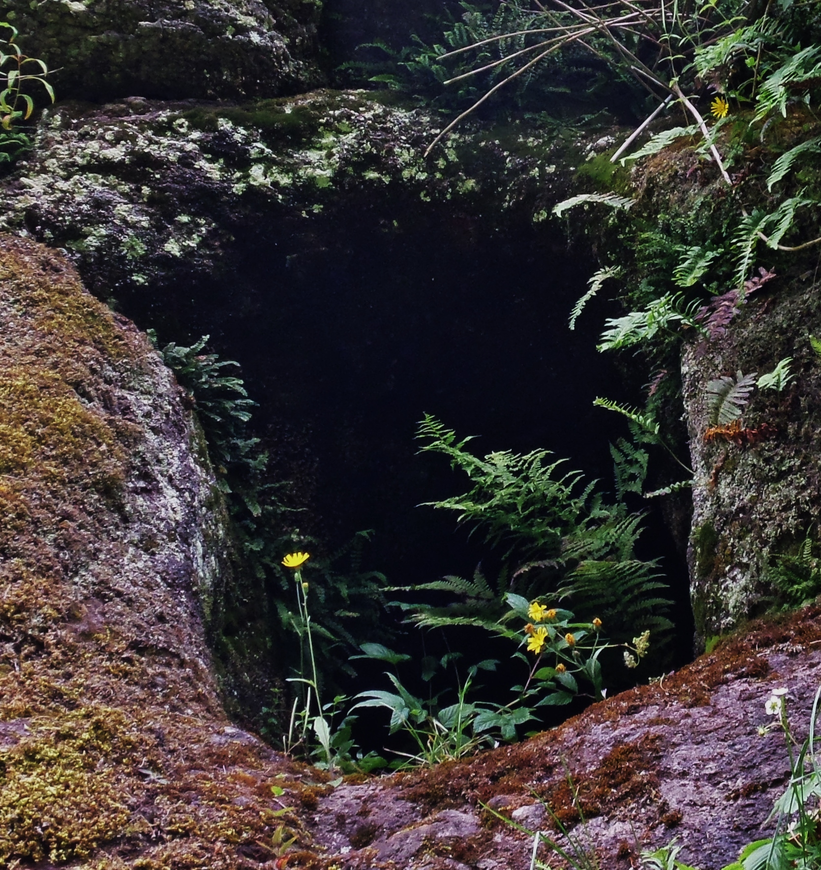 Dunton Cove access, 17th Century Covenanters artificial cave, Waterside, East Ayrshire. Entrance detail.